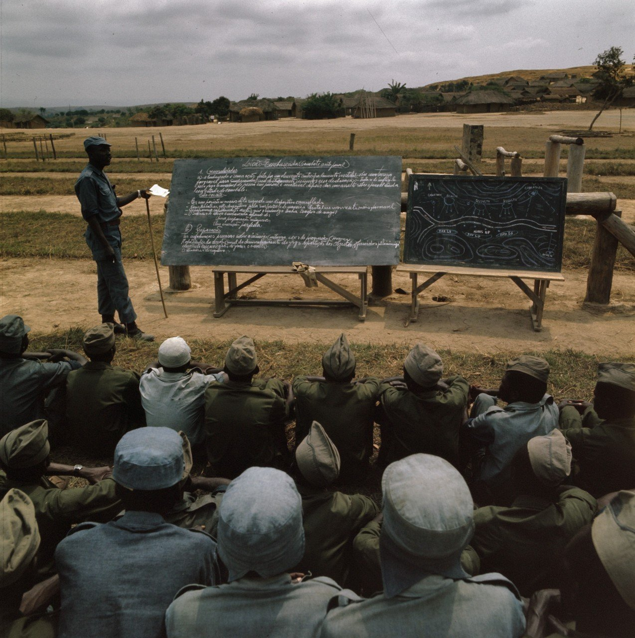 Remarks: FNLA recruits in an Angolan refugee camp in Zaire, 1973.